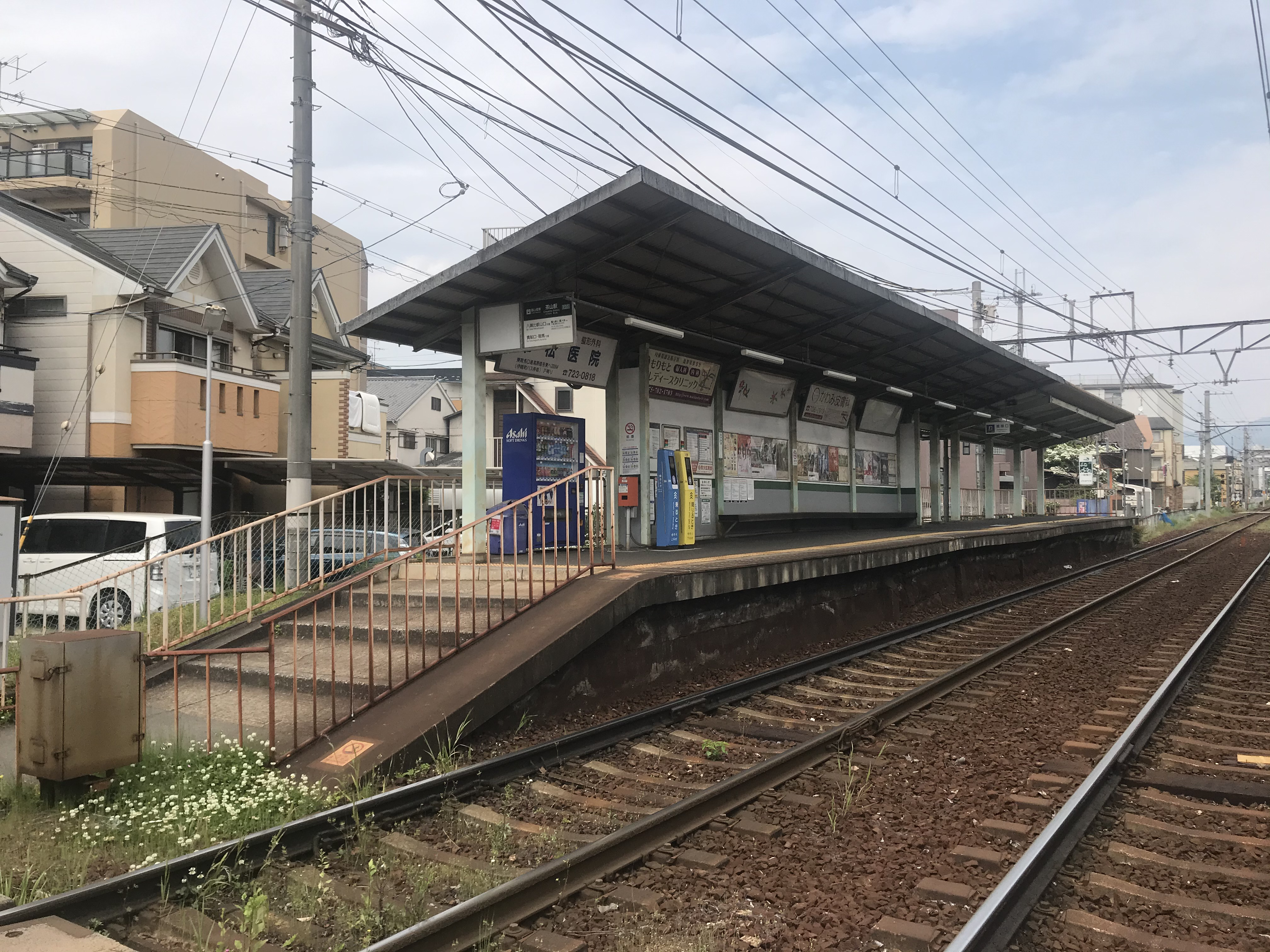 Chayama station Yase Hieizan guchi bound platform